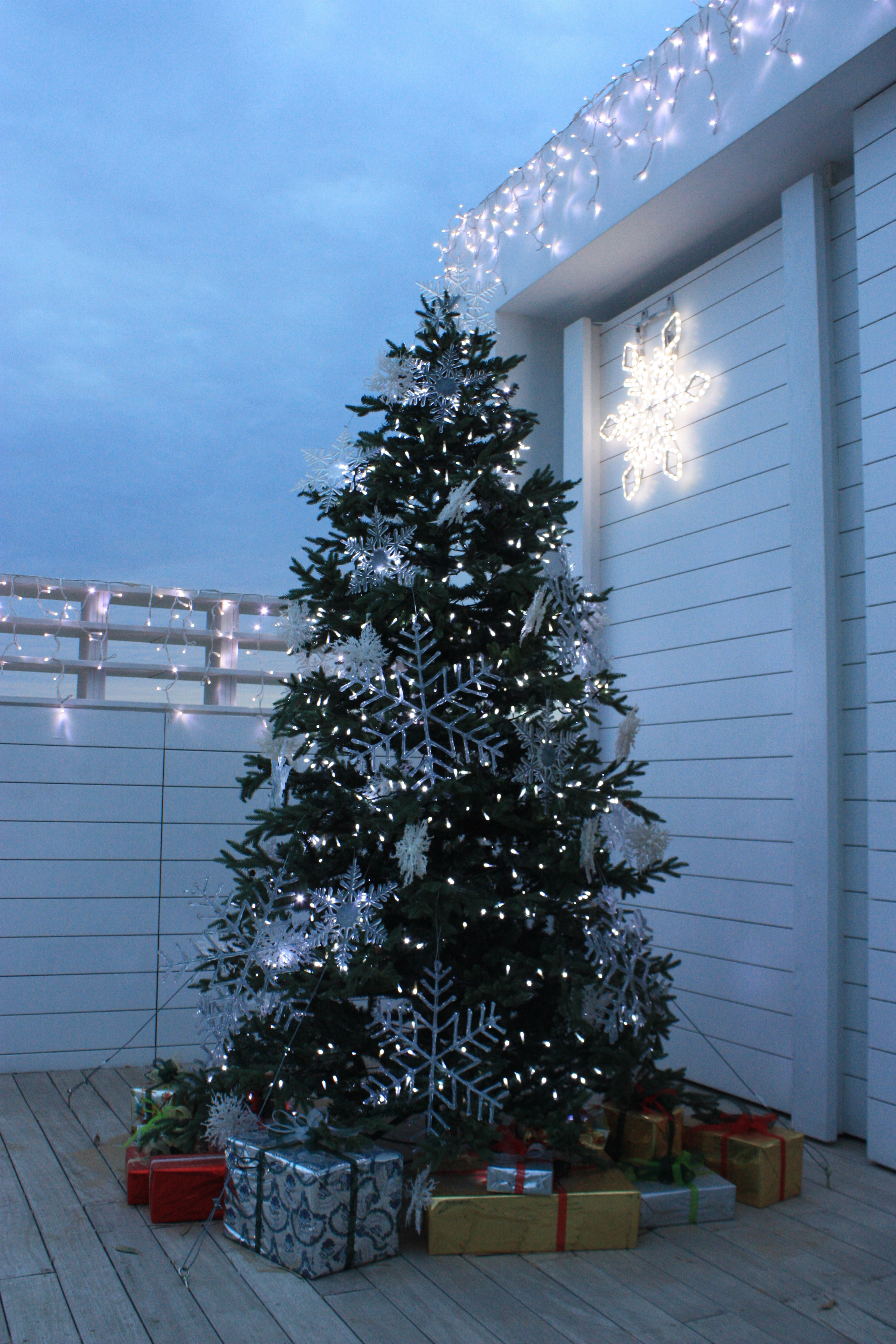 Artificial Christmas tree with lights and presents outside the entrance to the Astir Beach, Laimos, Vouliagmeni, Athens, Greece, Christmas 2009